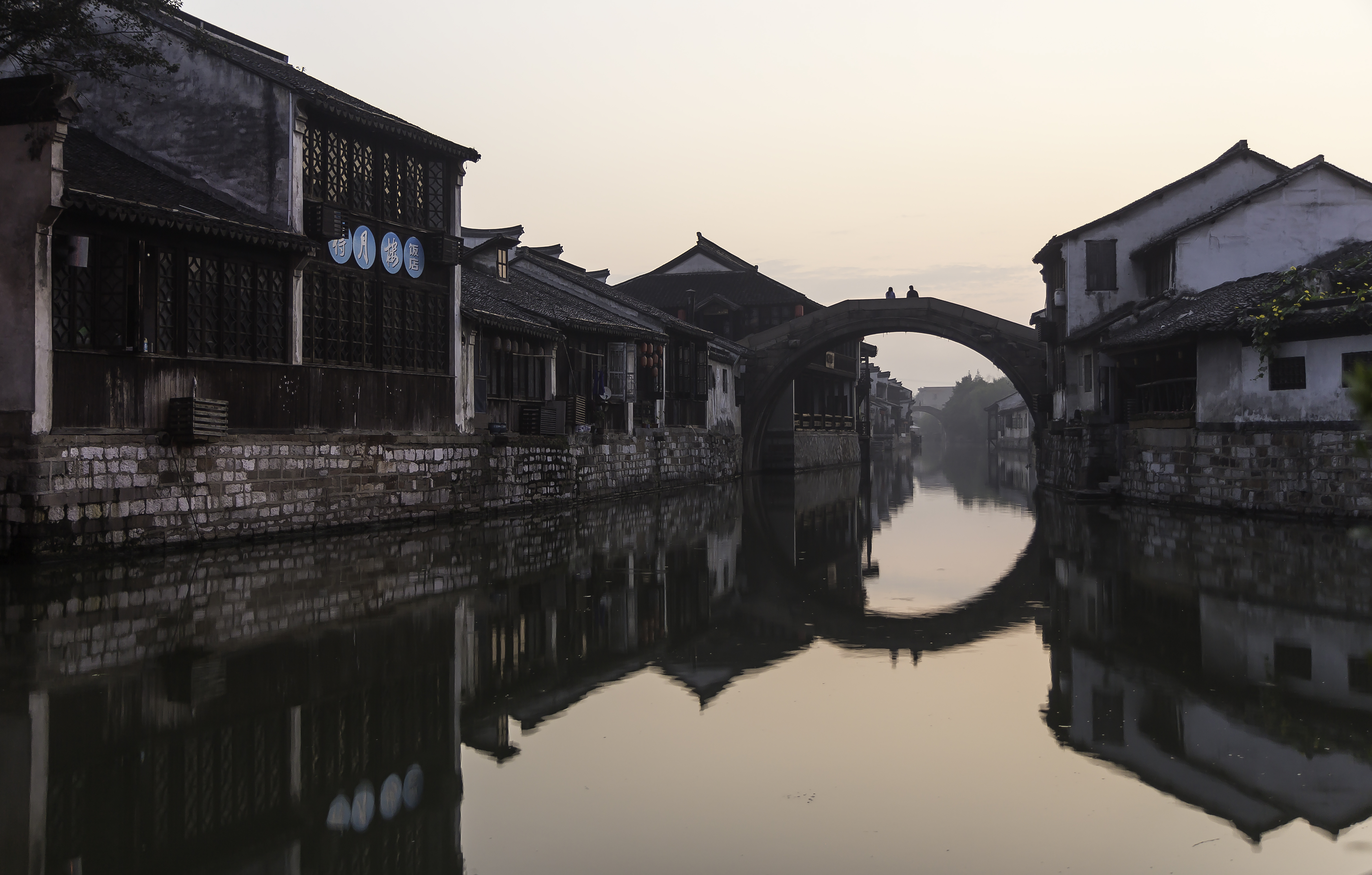 Sunrise in Nanxun, Ancient water town